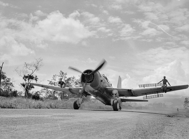 NADZAB, NEW GUINEA. C. 1944-02. A VULTEE VENGEANCE DIVE BOMBER AIRCRAFT OF NO. 21 SQUADRON RAAF TAXIING TO ITS DISPERSAL BAY AFTER A DIVE BOMBING RAID ON JAPANESE POSITIONS, WITH RIGGERS SITTING ON WINGS TO GUIDE PILOT WHILE TAXIING. THE DIVE BOMBER BRAKES ARE IN THE UP POSITION TO GIVE THE RIGGERS A GRIP IN THE SLIPSTREAM.